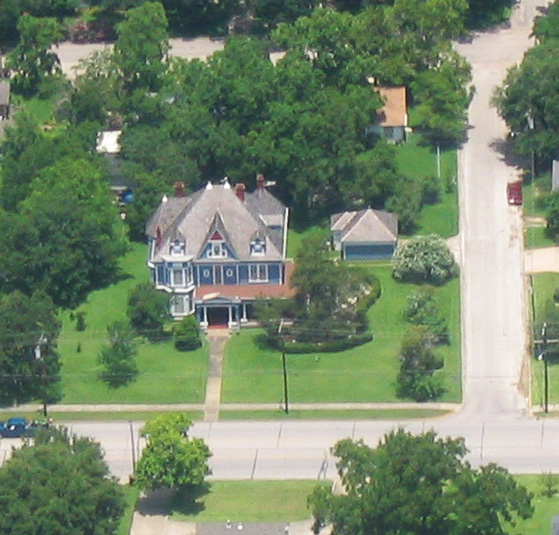 The Sangster House was erected by Robert Sangster in 1902 in Navasota, Texas. Original funding for the building's construction was obtained from a winning lottery ticket. The home was designated as a Historic Landmark by the State of Texas in 1974.